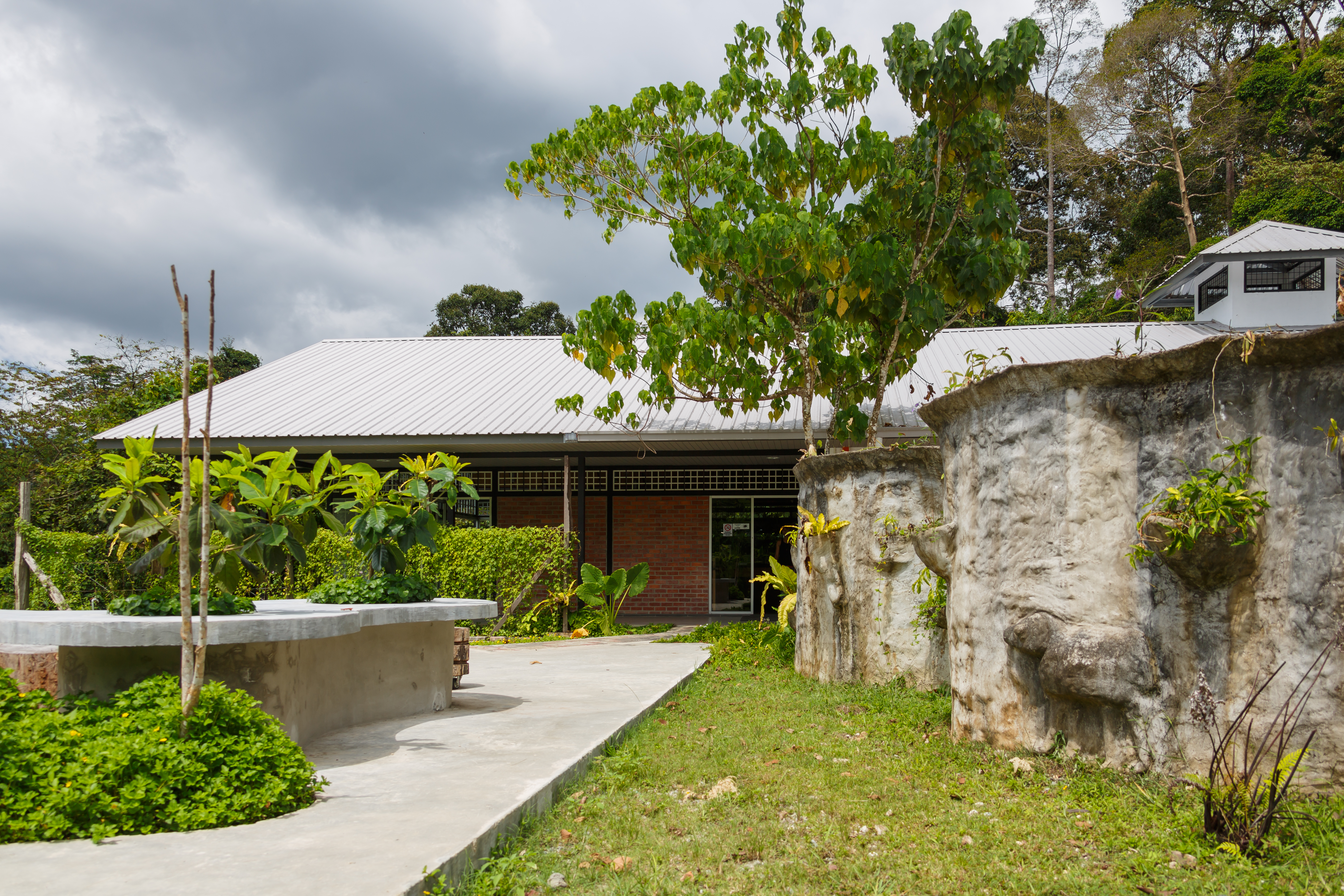 Sepilok, Sabah: Bornean Sun Bear Conservation Centre